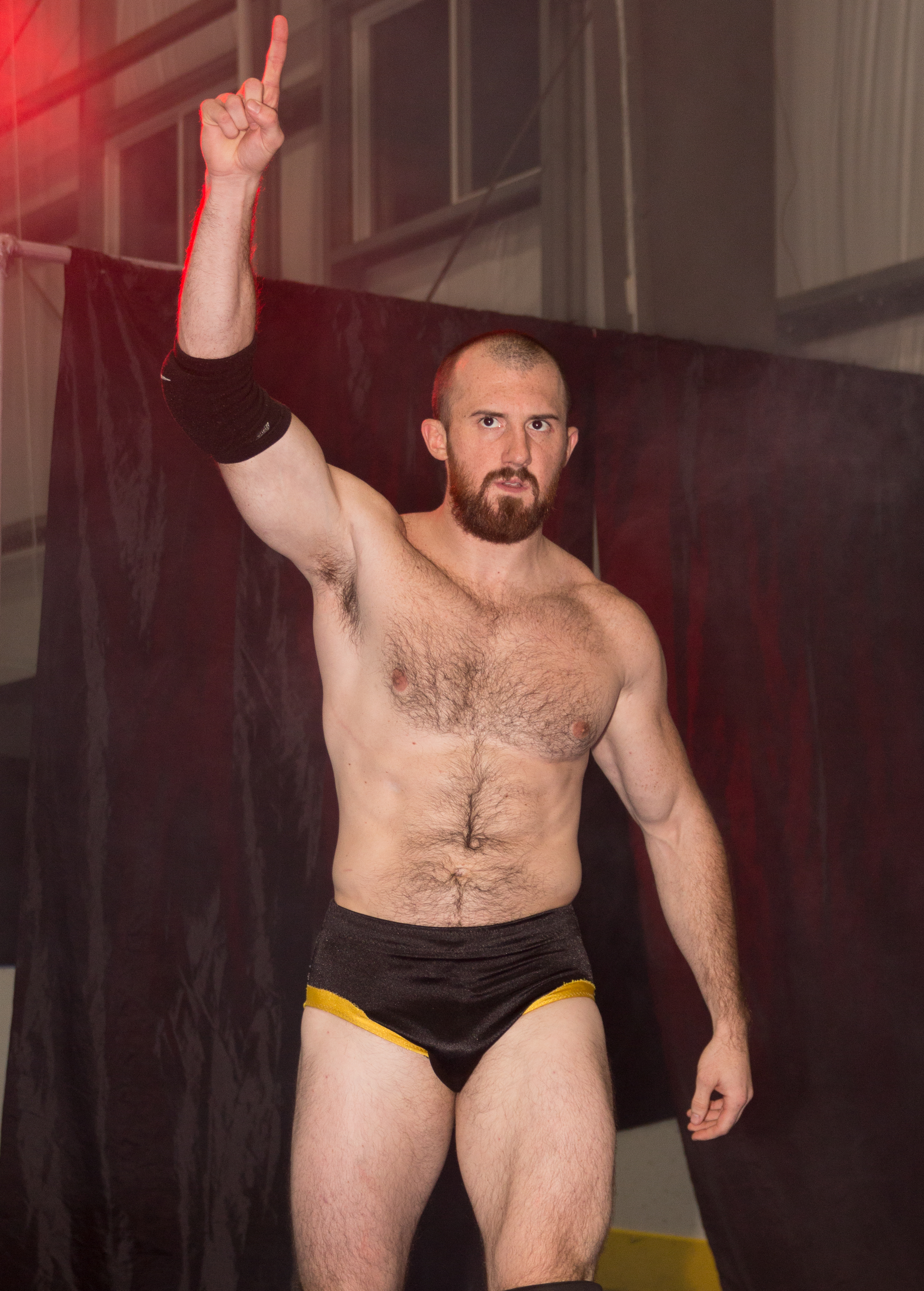 Independent wrestler Biff Busick making his entrance at Smash Wrestling's Challenge Accepted show at the Canlan Sportsplex in Mississauga, ON